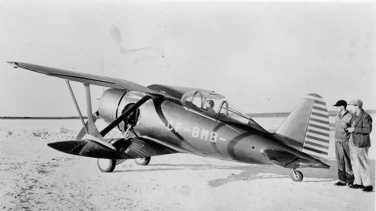 A test of the Canadian Car & Foundry FDB-1. Image appears to be circa 1938, given the history of the plane and similar photographs from the same collection.